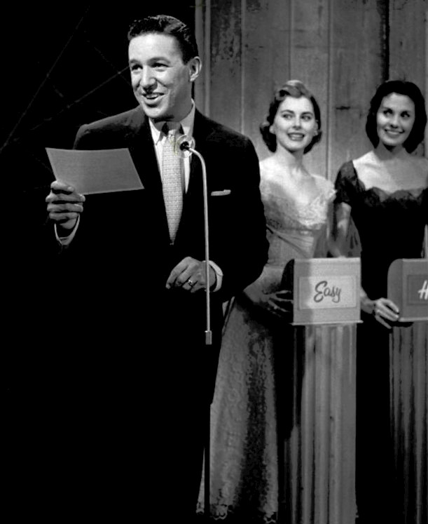 Photo from the television game show The Big Surprise. From left: host Mike Wallace, assistant Sue Oakland (Easy questions) and Mary Gardiner (Hard questions).